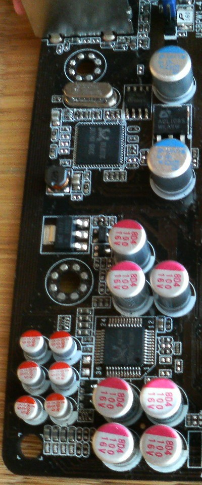 Solid capacitors on a mother board.